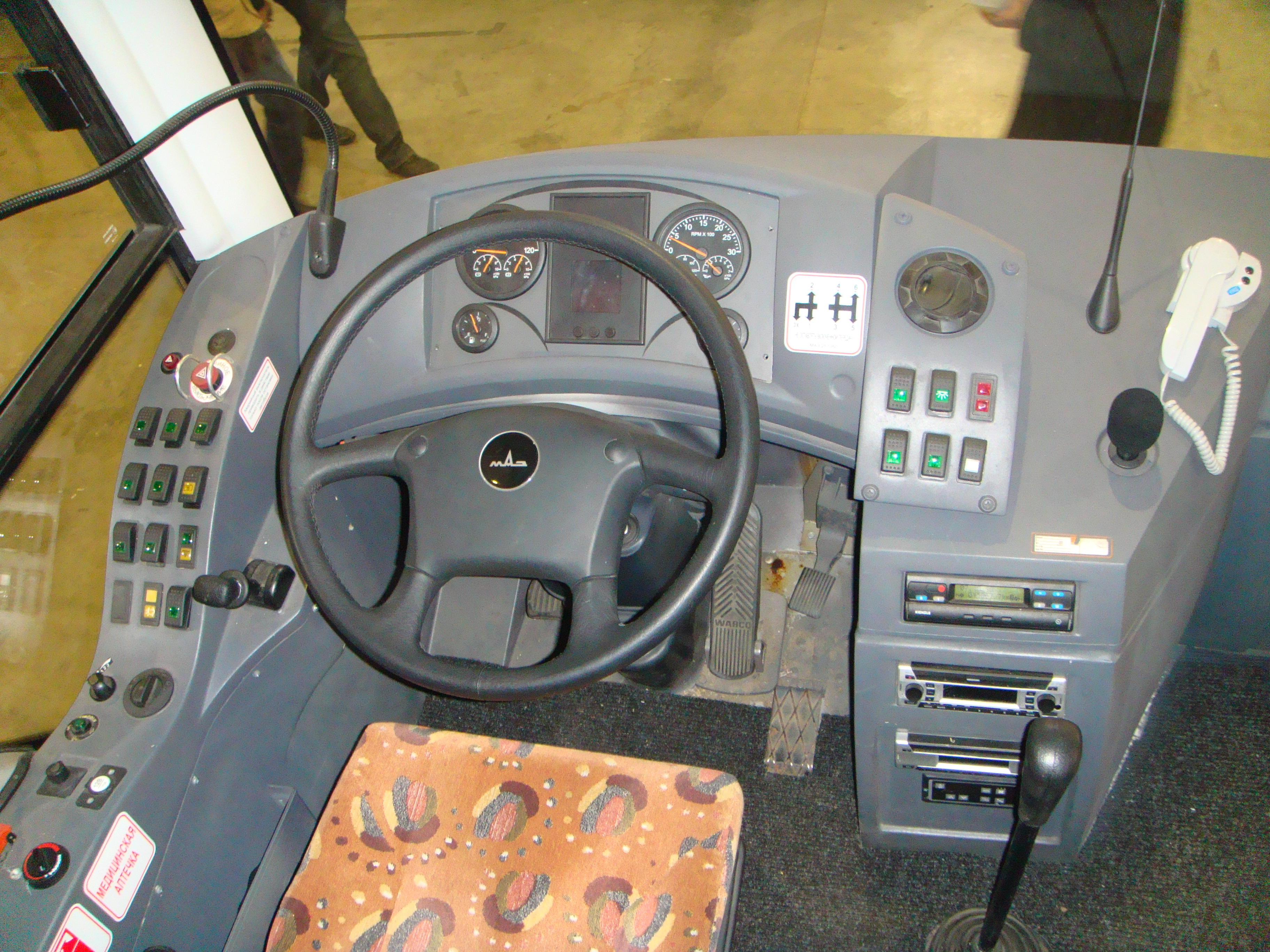 MAZ 251.050 coach driver's place in Kiev, Ukraine. TIR 2010.